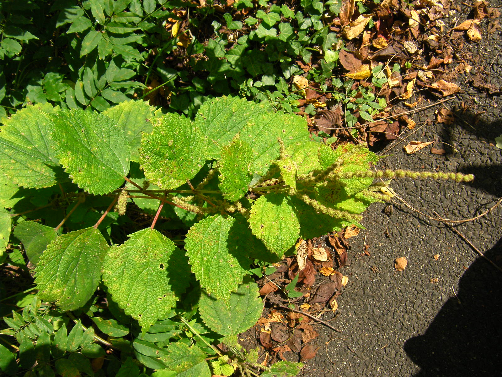 Boehmeria longispica, a near relation of Ramie. Mukaiyama, Taihaku ward, Sendai, Miyagi prefecrue, Japan. north east of Honshū. At the north foot of Mt. Atago.